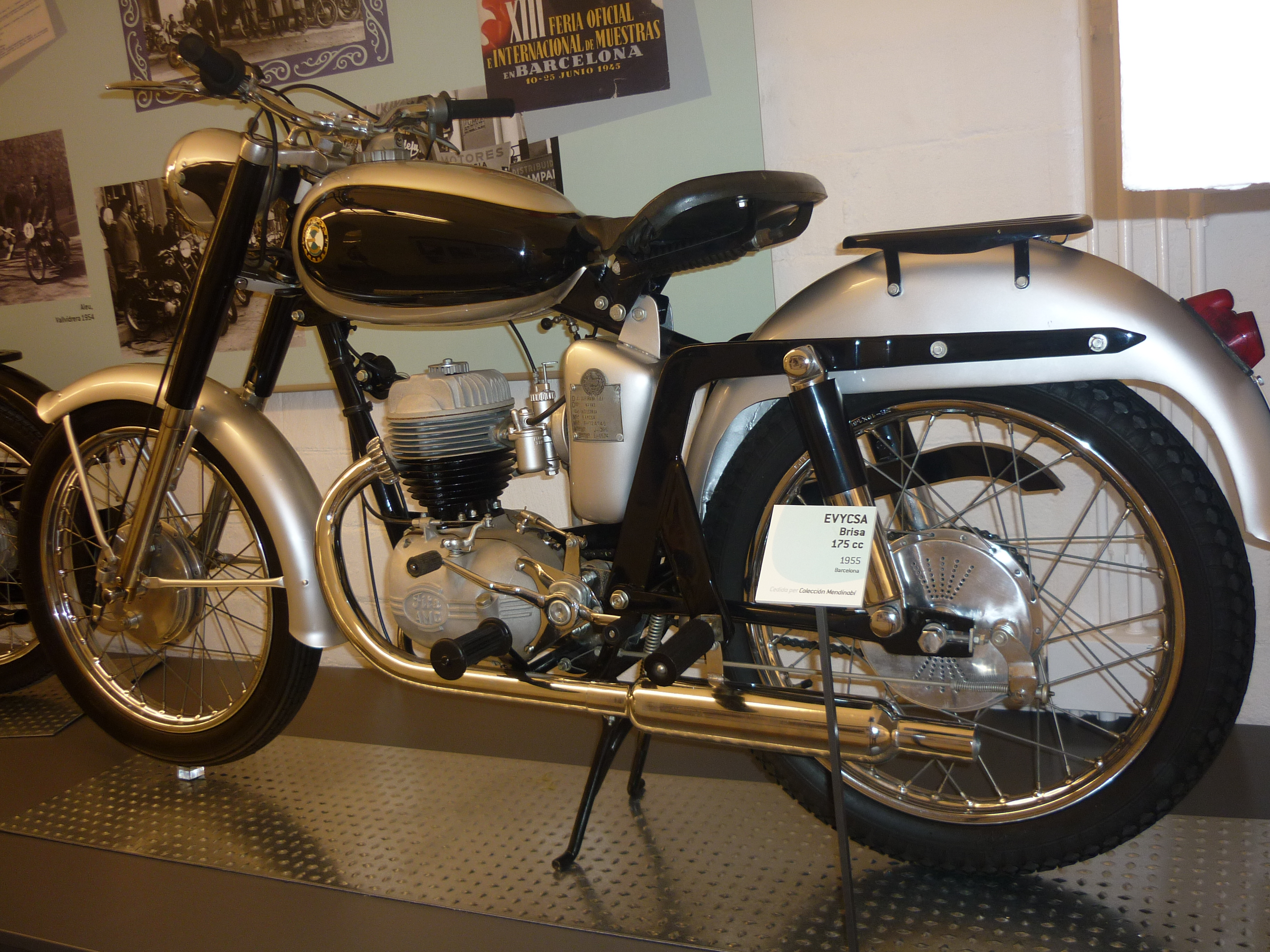 Evycsa Brisa 175cc (1955). Museu de la Moto de Barcelona (Catalonia).